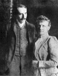 Photograph of Edward Elgar and his wife Caroline Alice Elgar believed to date from c. 1891. Photographer unknown. Scan from The Musical Times, February 1984, p. 77, which cites no relevant information about the source.